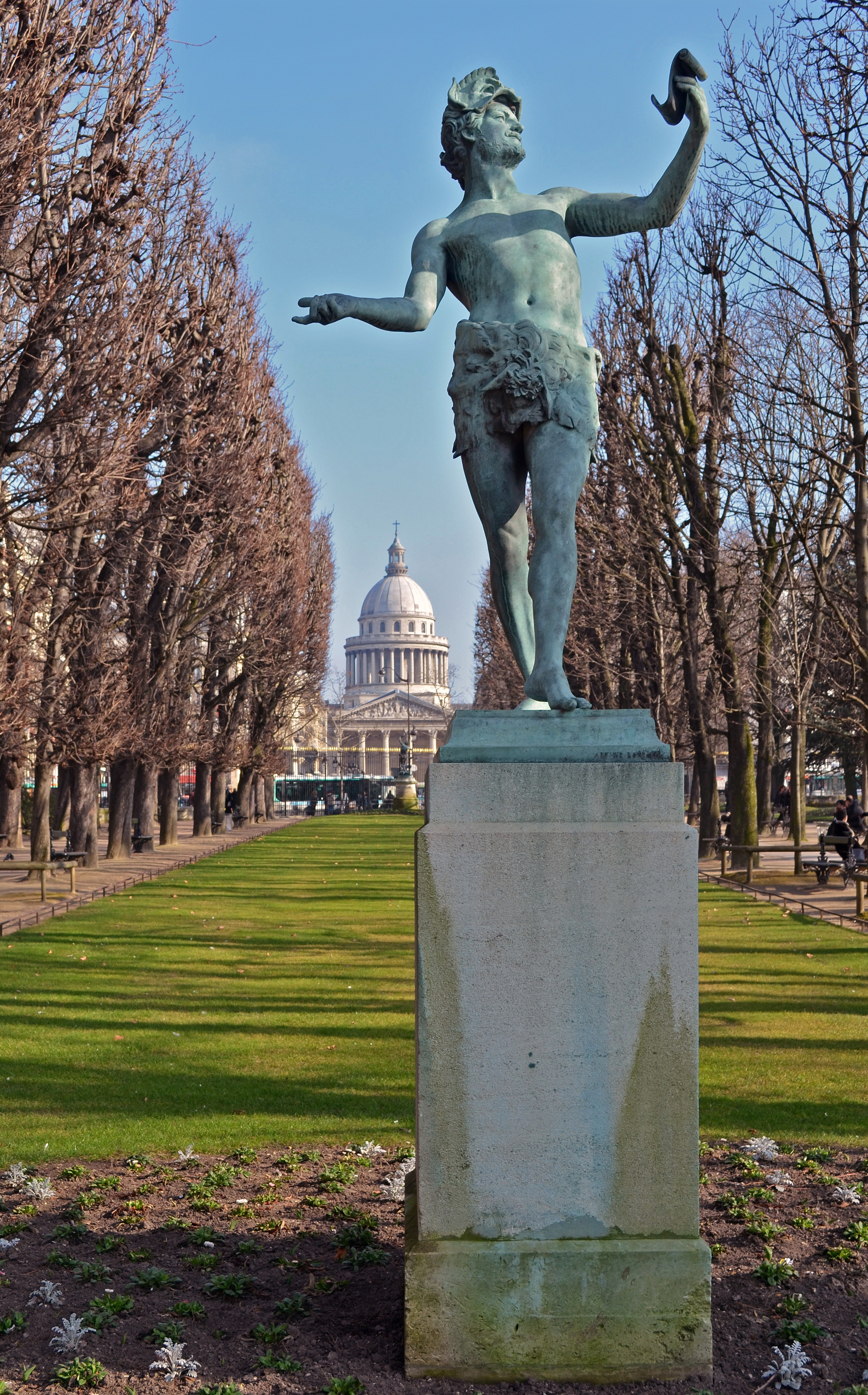 Greek actor, sculpture by Charles Arthur Bourgeois (1838-1886) - Jardin du Luxembourg - Paris